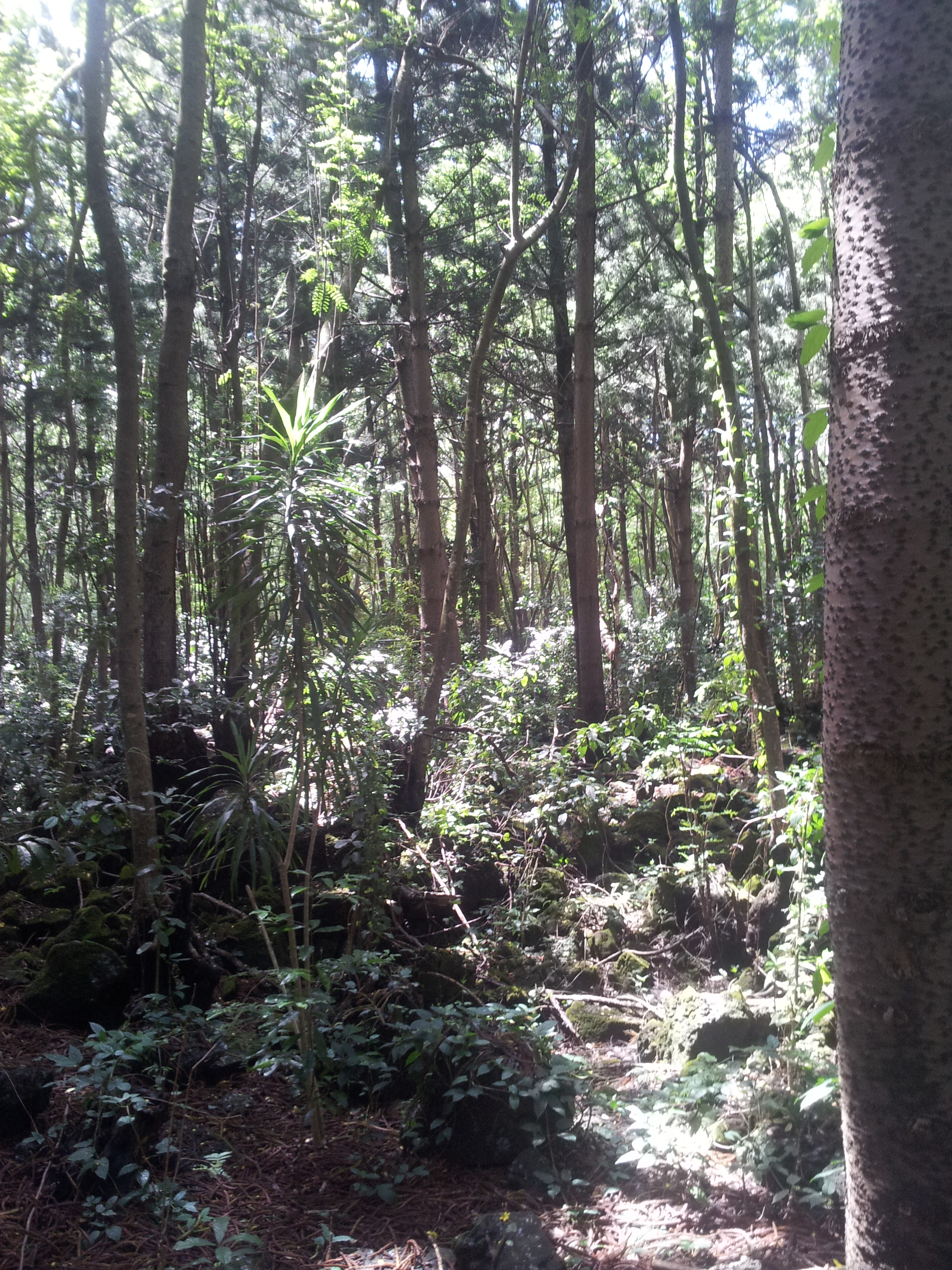 Endemic Mauritian plants surviving under plantation of alien trees. Bras d'Eau.